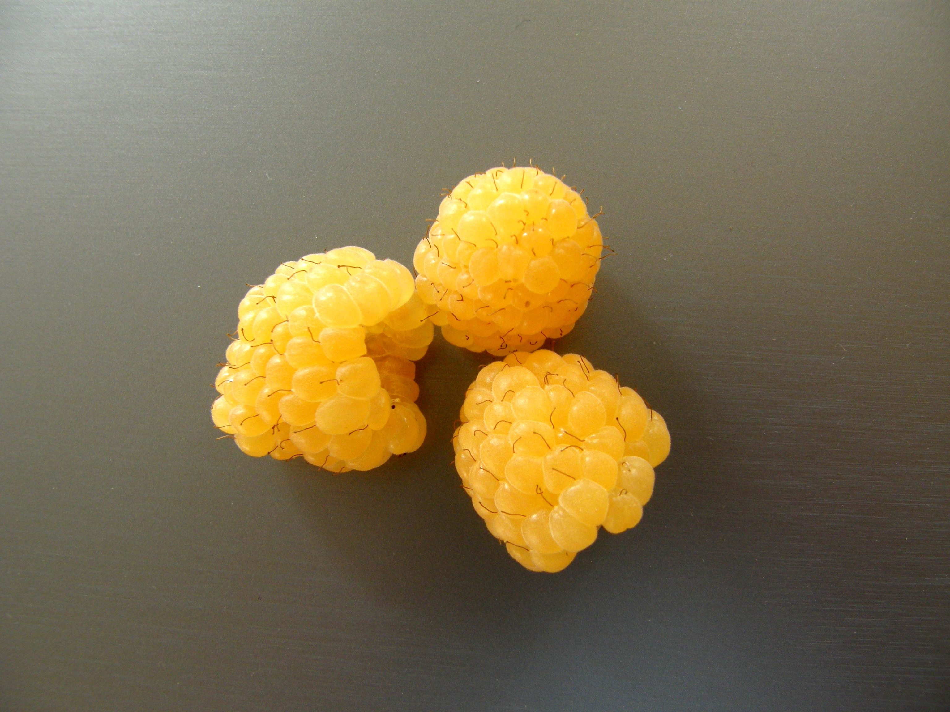 Large yellow raspberries with a very sweet taste.